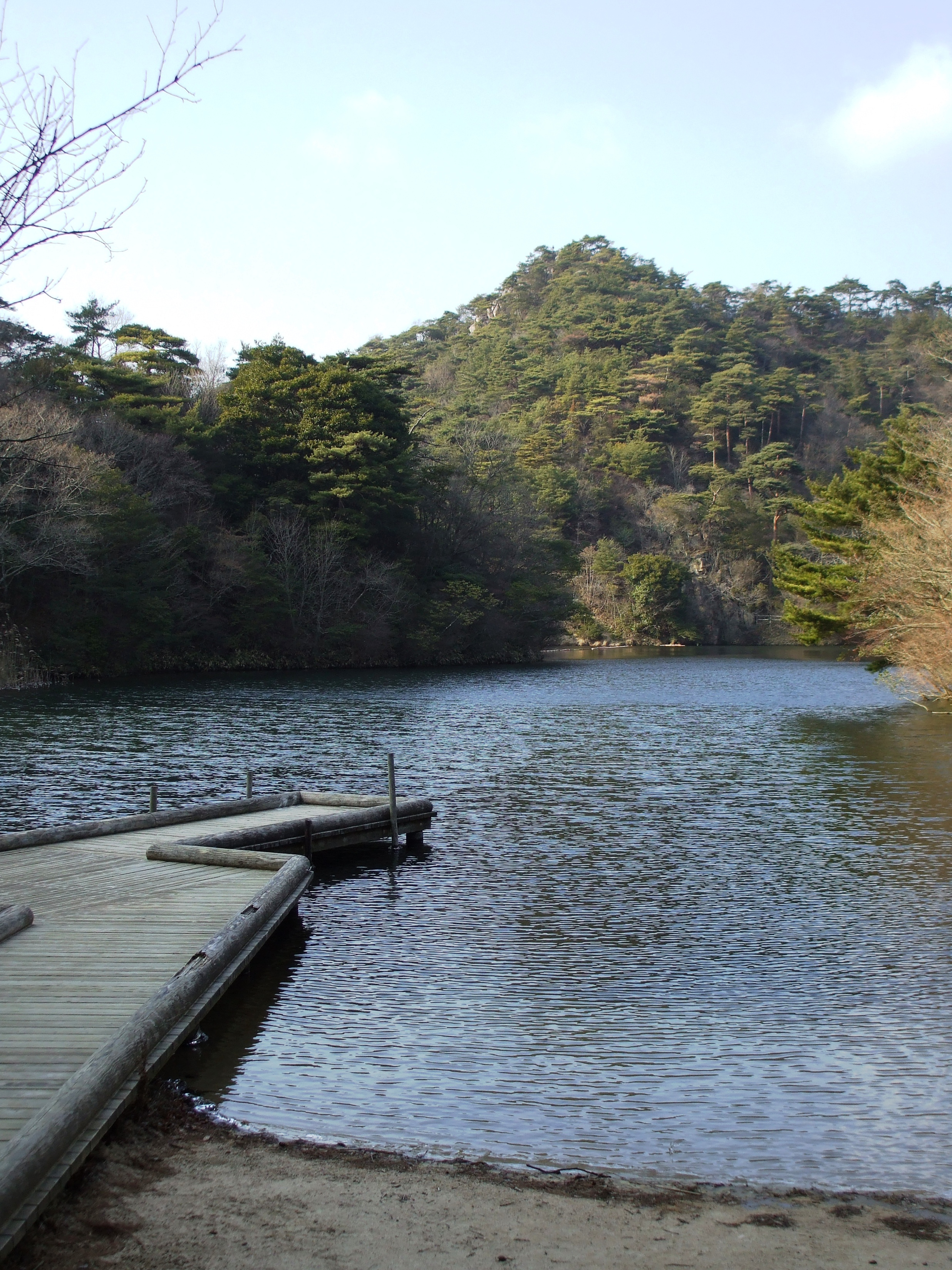 Lake Hodaka in Rokkō Mountains, Kobe, Hyōgo, Japan.